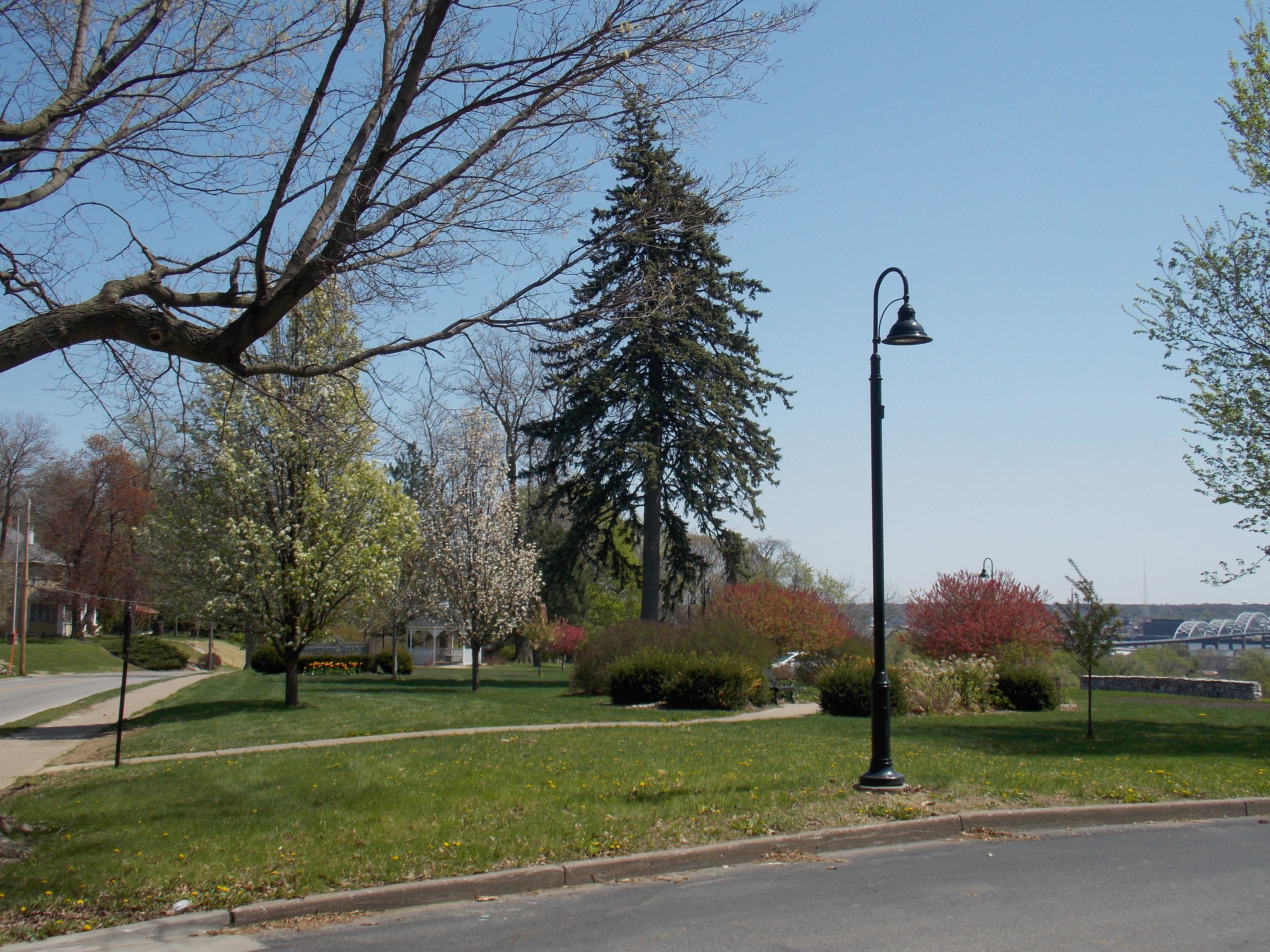 Riverview Terrace Park in Davenport, Iowa is a contributing property in the Riverview Terrace Historic District.